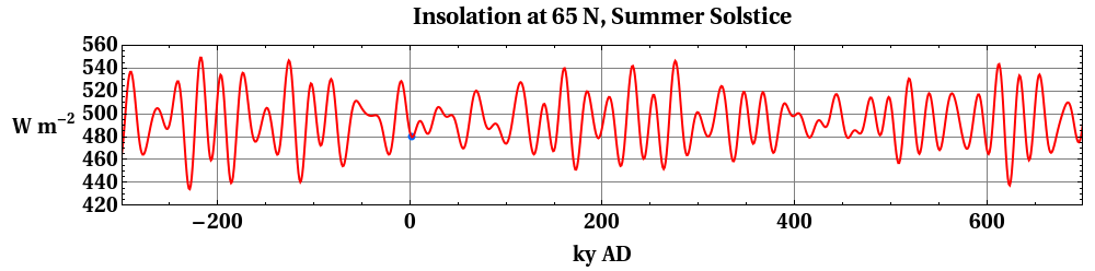 Past and future of daily average insolation at top of the atmosphere on the day of the summer solstice, at 65 N latitude as derived from orbital parameters The current interglacial may last an unusually long time. advocates we may need to wait 620,00 years for sufficient reduction in insolation to trigger an ice age. Blue dot is current condition at 2 ky AD (2000 AD).